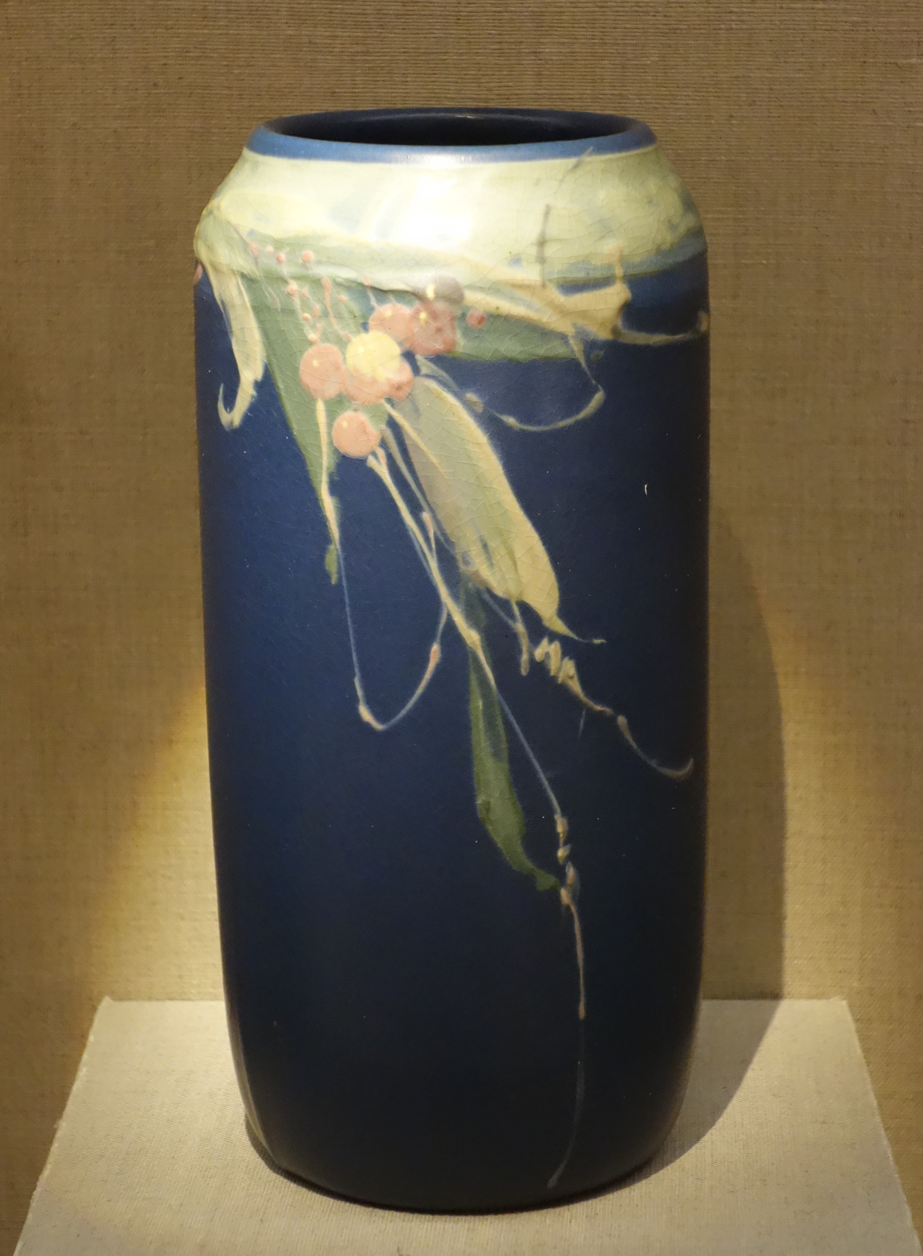 Exhibit in the De Young Museum, San Francisco, California, USA. This artwork is in the public domain because the artist died more than 70 years ago.